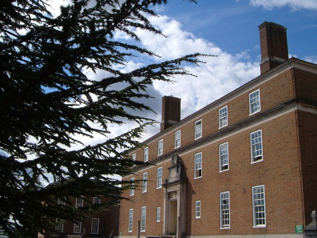 The Hatherly Laboratories, University of Exeter Part of the School of Biosciences, built 1948-52.